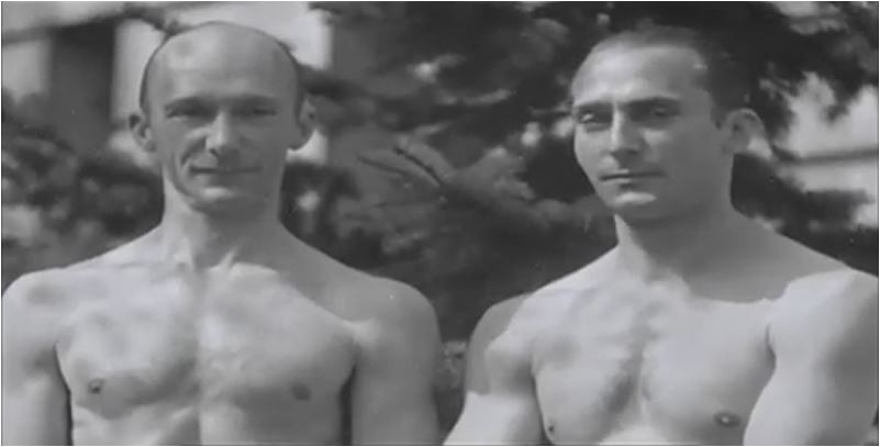 Black and white portrait, bust, of Gaston Durville (left) and André Durville (right) shirtless.